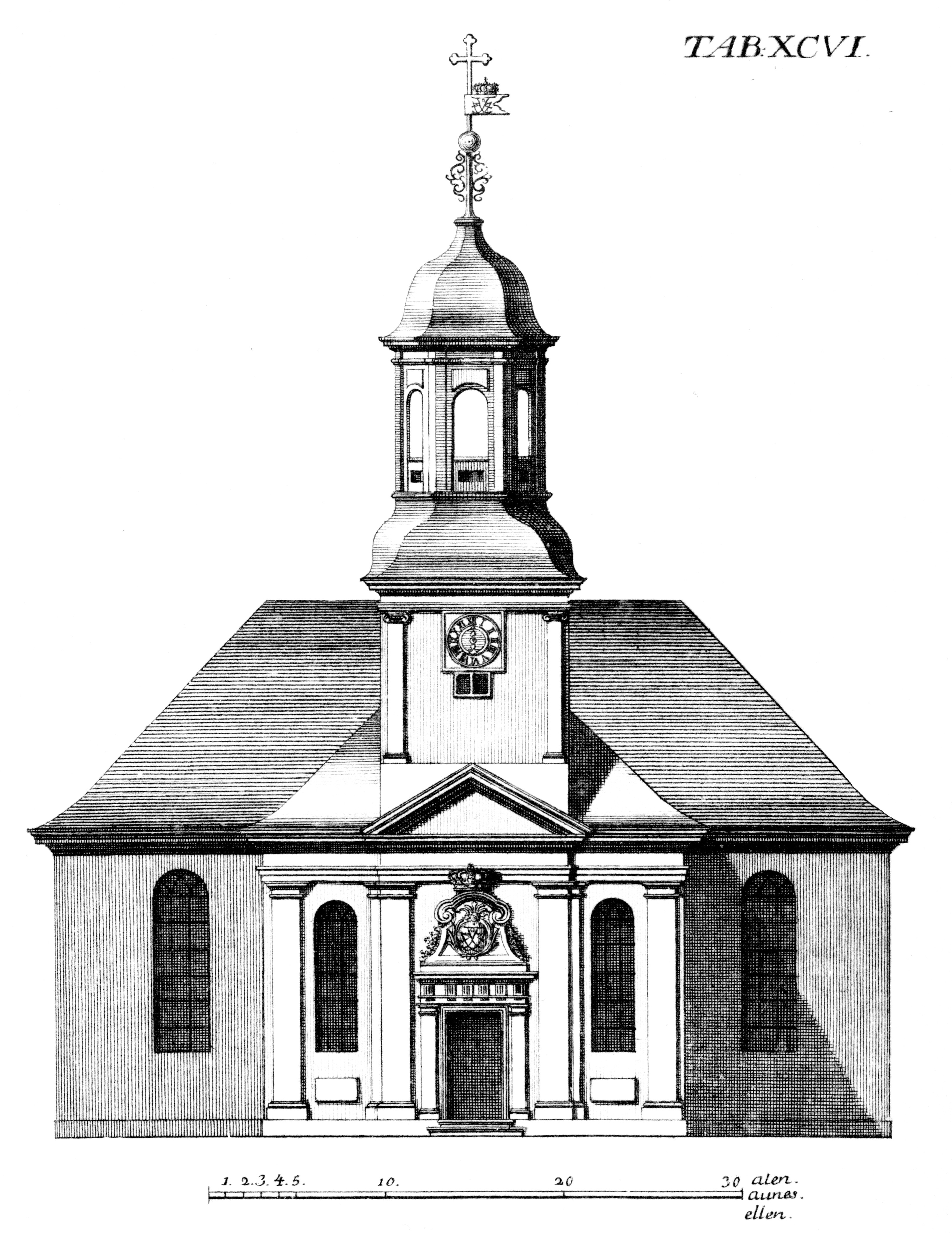 From Hafnia Hodierna by Laurids de Thurah, 1748. Drawings of buildings in Copenhagen. Tab. XCVI. Garnisons Kirke.